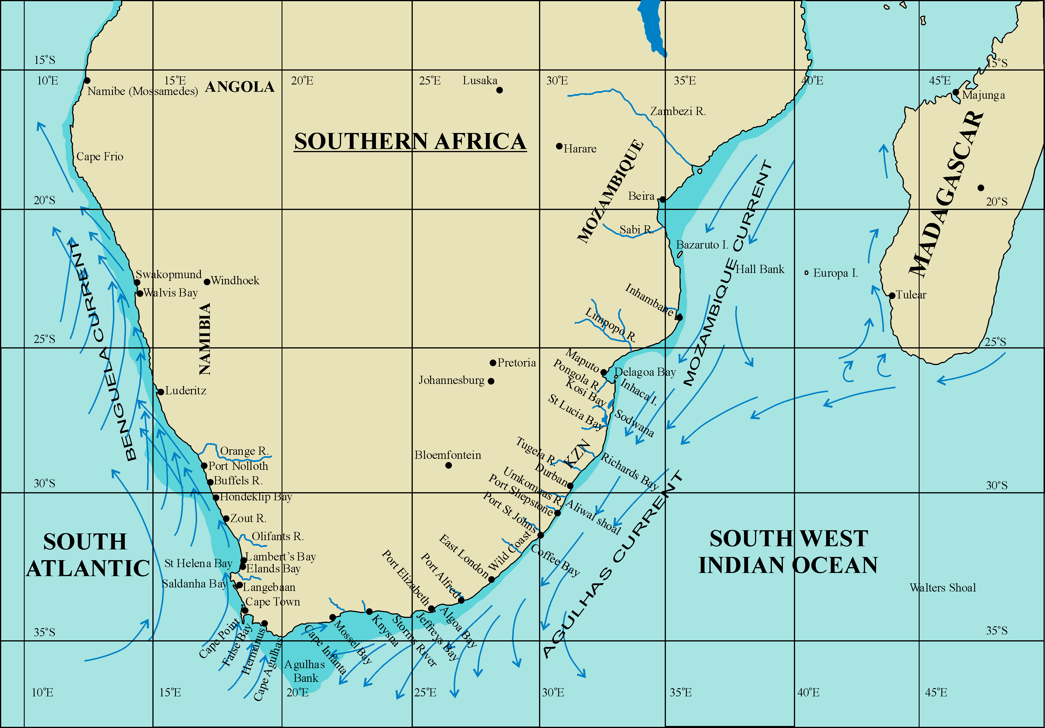 Map of Southern Africa with landmarks identified for marine species distribution and range reference